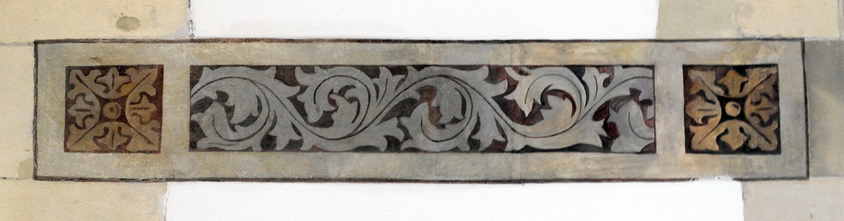 Painted decoration (Gothic Revival?) in the north corridor of Kruisherenklooster in Maastricht, the Netherlands. The Gothic church and monastery of the Croziers (or Crutched Friars) dates from the 15th century and was converted into a luxury hotel (Kruisherenhotel) in 2003-05.